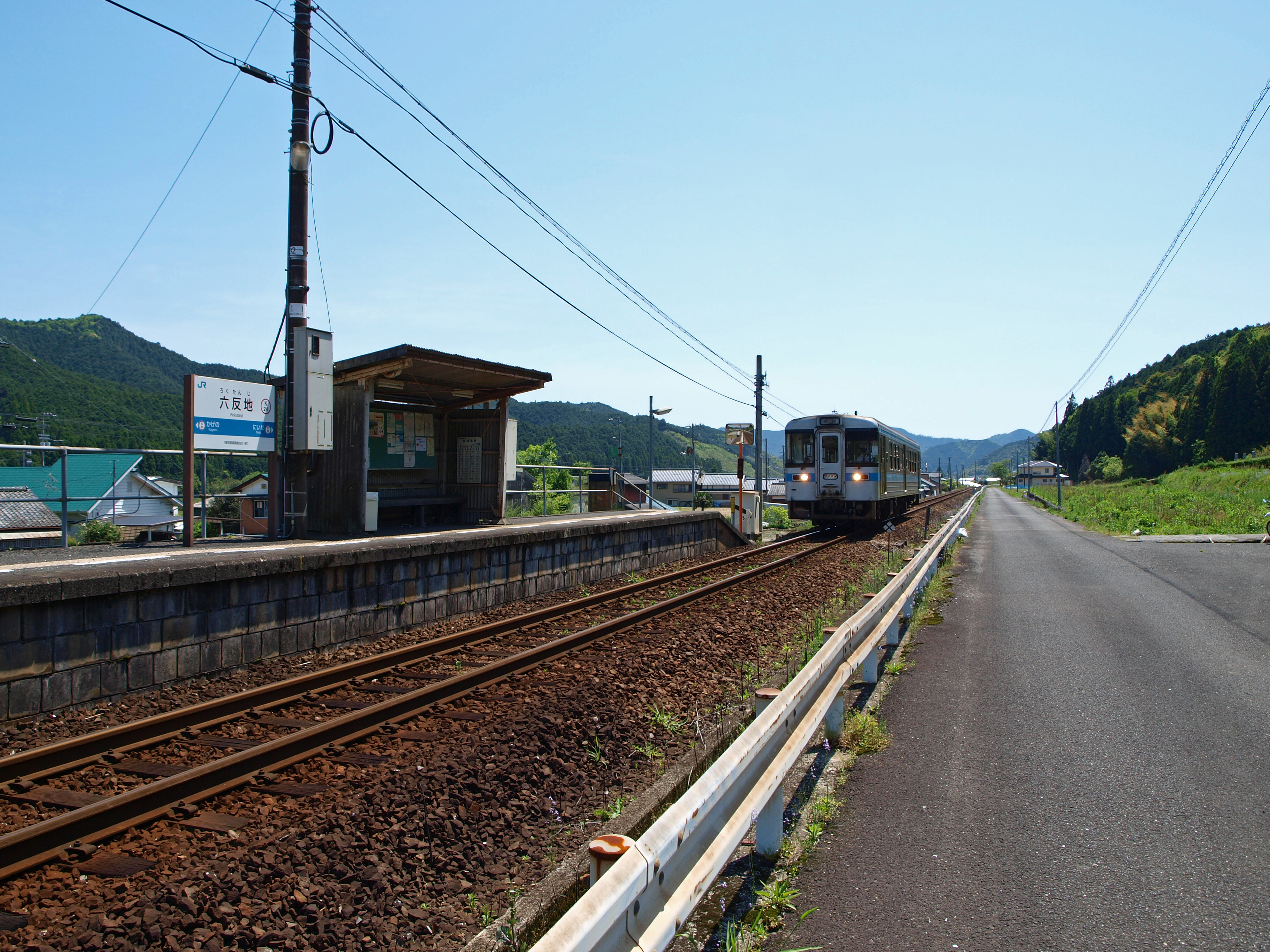 Rokutanji station, Dosan-line, JR Shikoku, Japan 土讃線 六反地駅